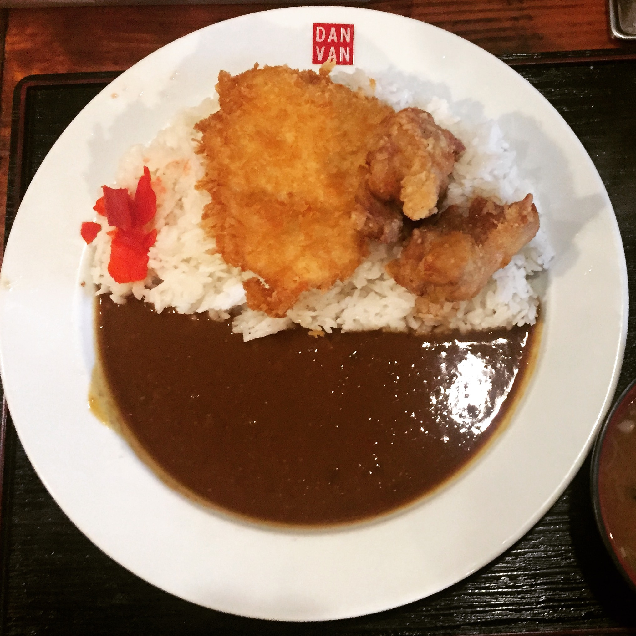 Japanese food by Naoki Nakashima